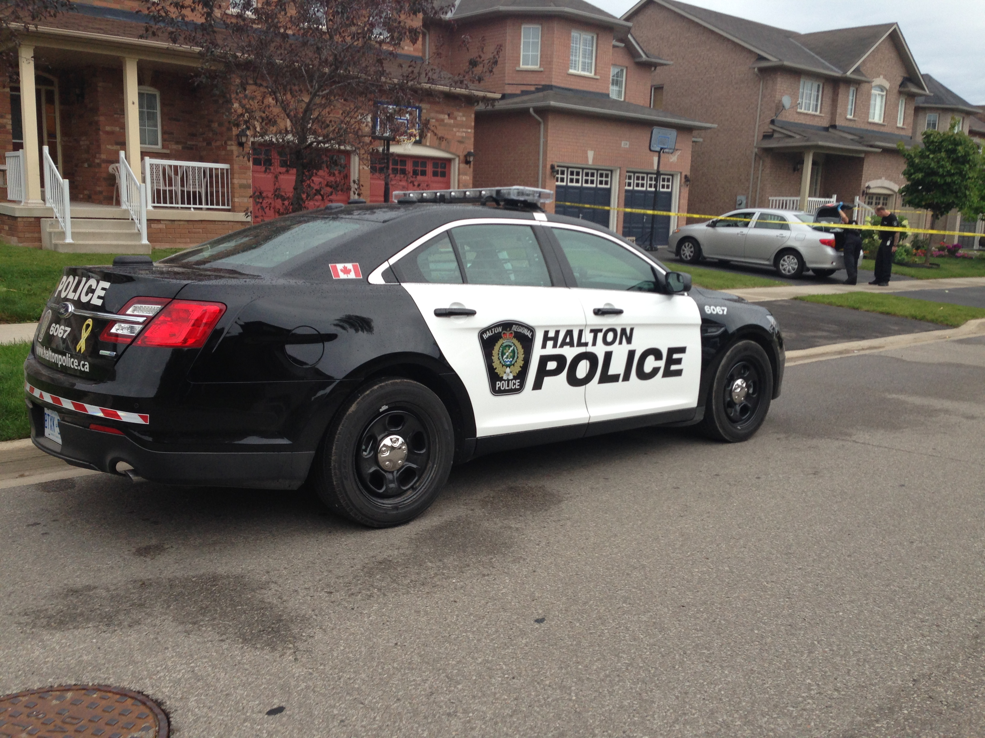 This is a picture of a Halton Regional Police car with the black and white color scheme parked at a crime scene.